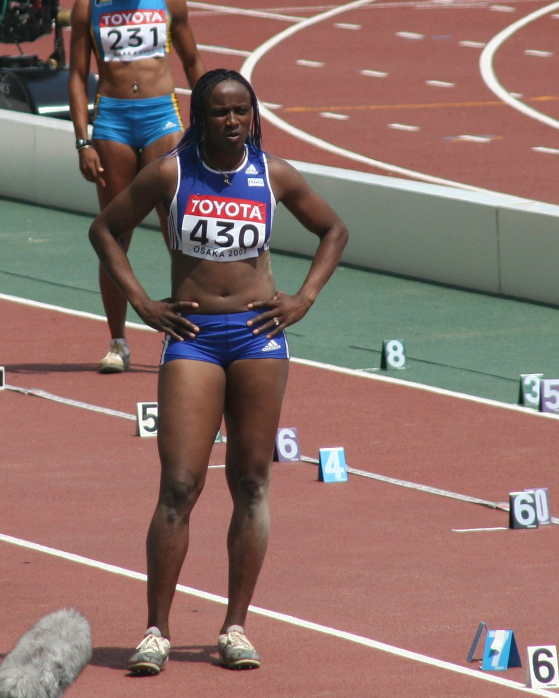 World Athletics Championships 2007 in Osaka - French long jumper and runner Eunice Barber during preparation for her last jump at the qualifying round